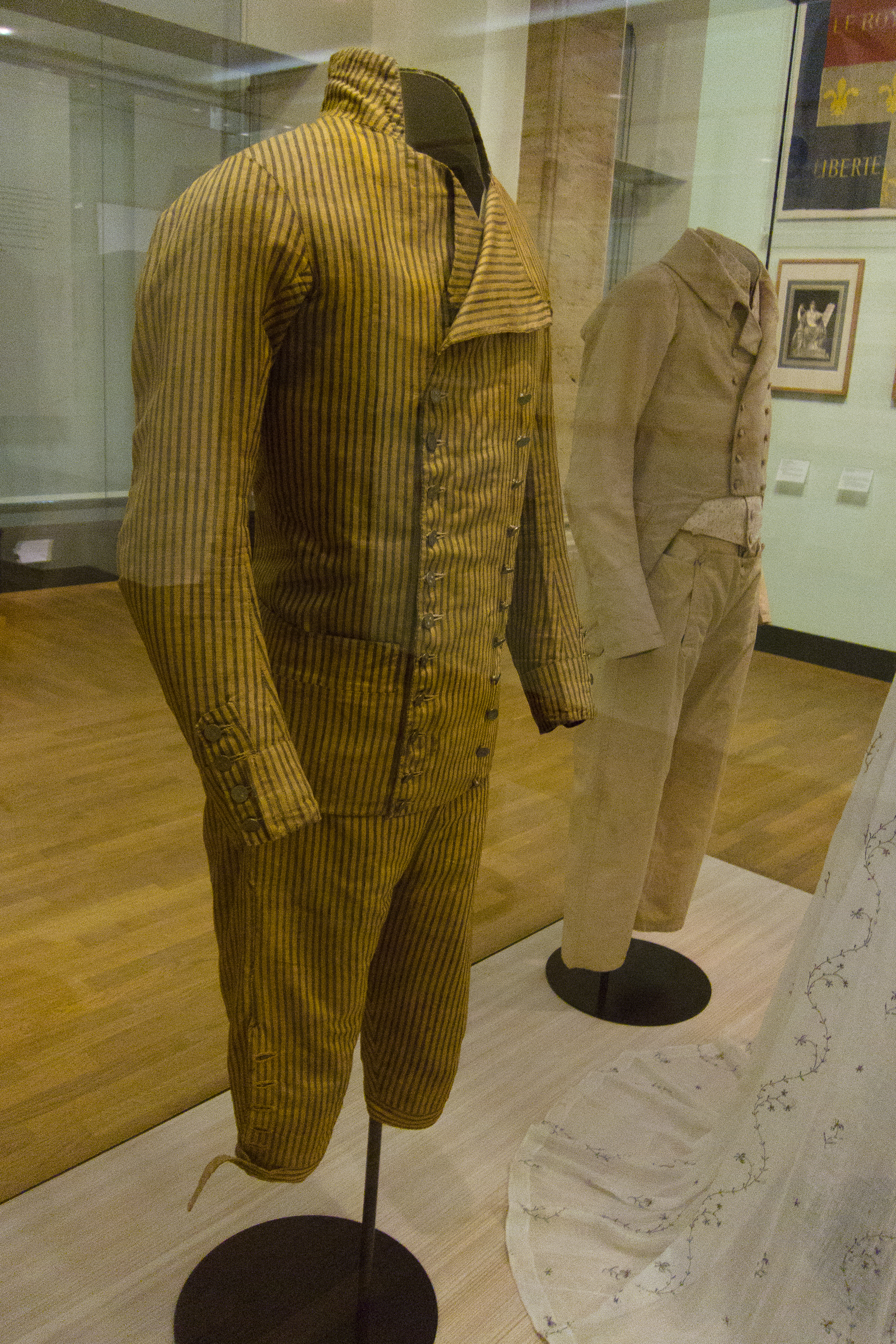 1790s French men's suits at the German Historical Museum (Deutsches Historisches Museum), (DHM)